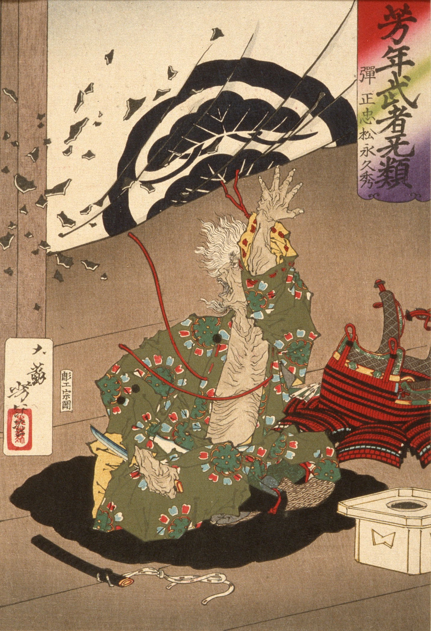 Japan, 1883 Series: Yoshitoshi's Warriors Trembling with Courage Prints; woodcuts Color woodblock print Herbert R. Cole Collection (M.84.31.74) Japanese Art